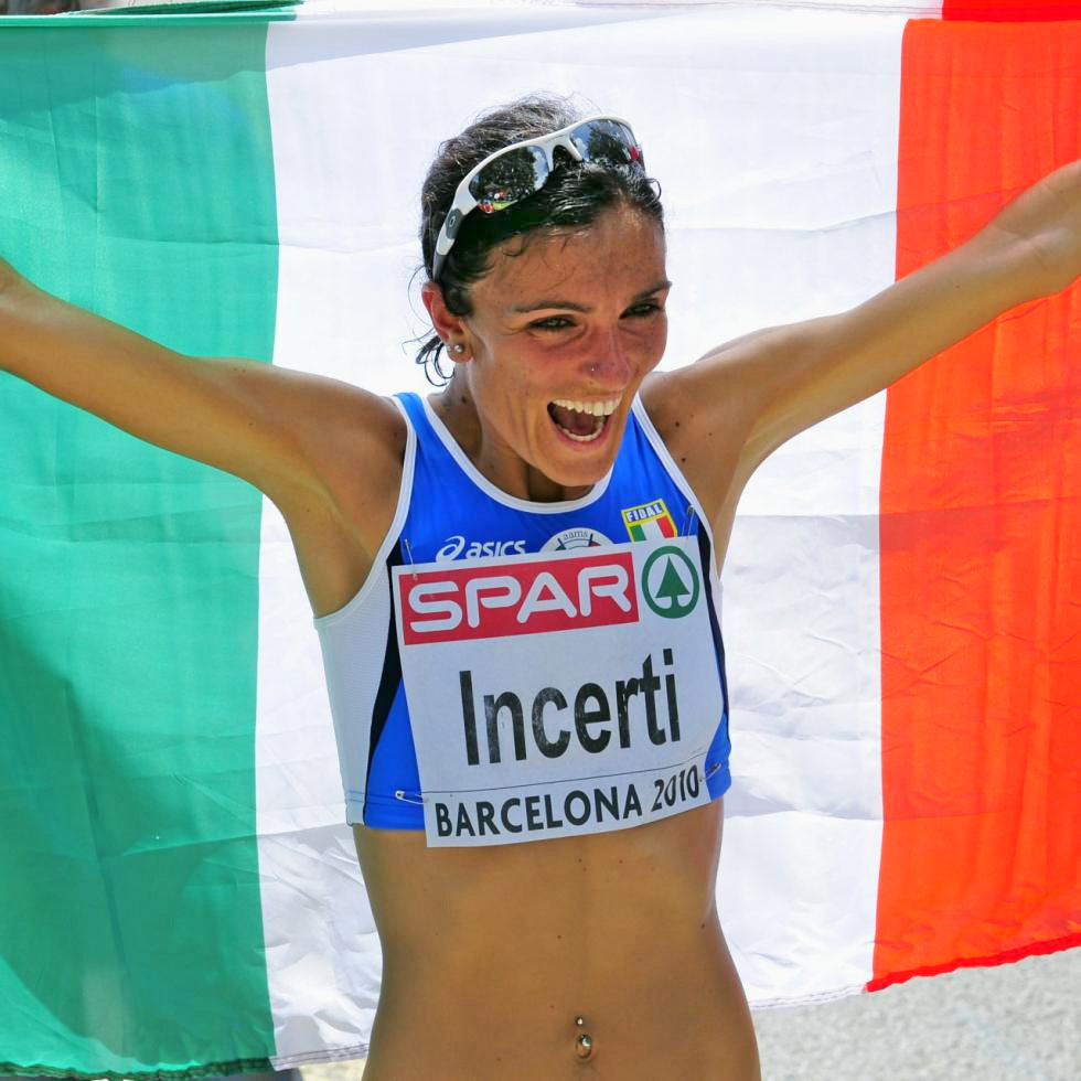 Anna Carmela Incerti celebrating her bronze medal in the marathon of 2010 Athletic European Championships